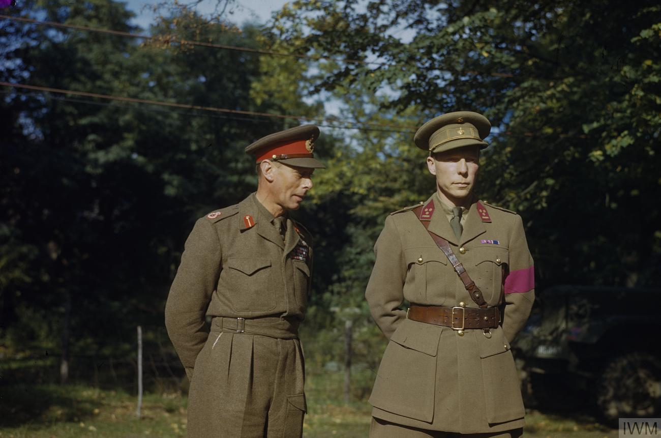 Hm King George Vi With the British Liberation Army in Belgium, October 1944 HM King George VI with Prince Charles, Regent of Belgium. The King lunched with the Prince at the Headquarters of the Canadian Army in Belgium.